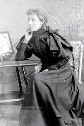 Self portrait taken by Moodie.